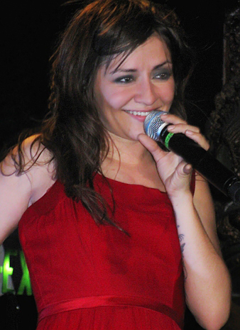 Lacey Sturm (Mosley) of Flyleaf at the end of the Memento Mori concert in San Francisco.